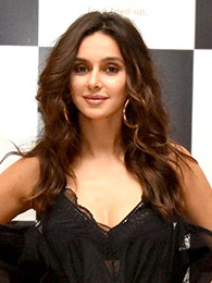 Shibani Dandekar grace the launch of Arth restaurant on June 2018.